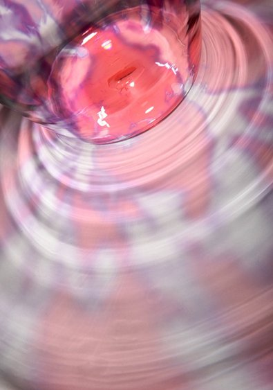 Photosensitive glass